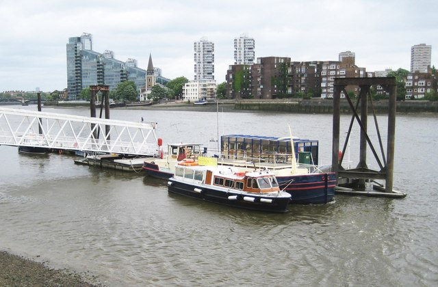 Chelsea Harbour Pier on the River Thames in London, UK